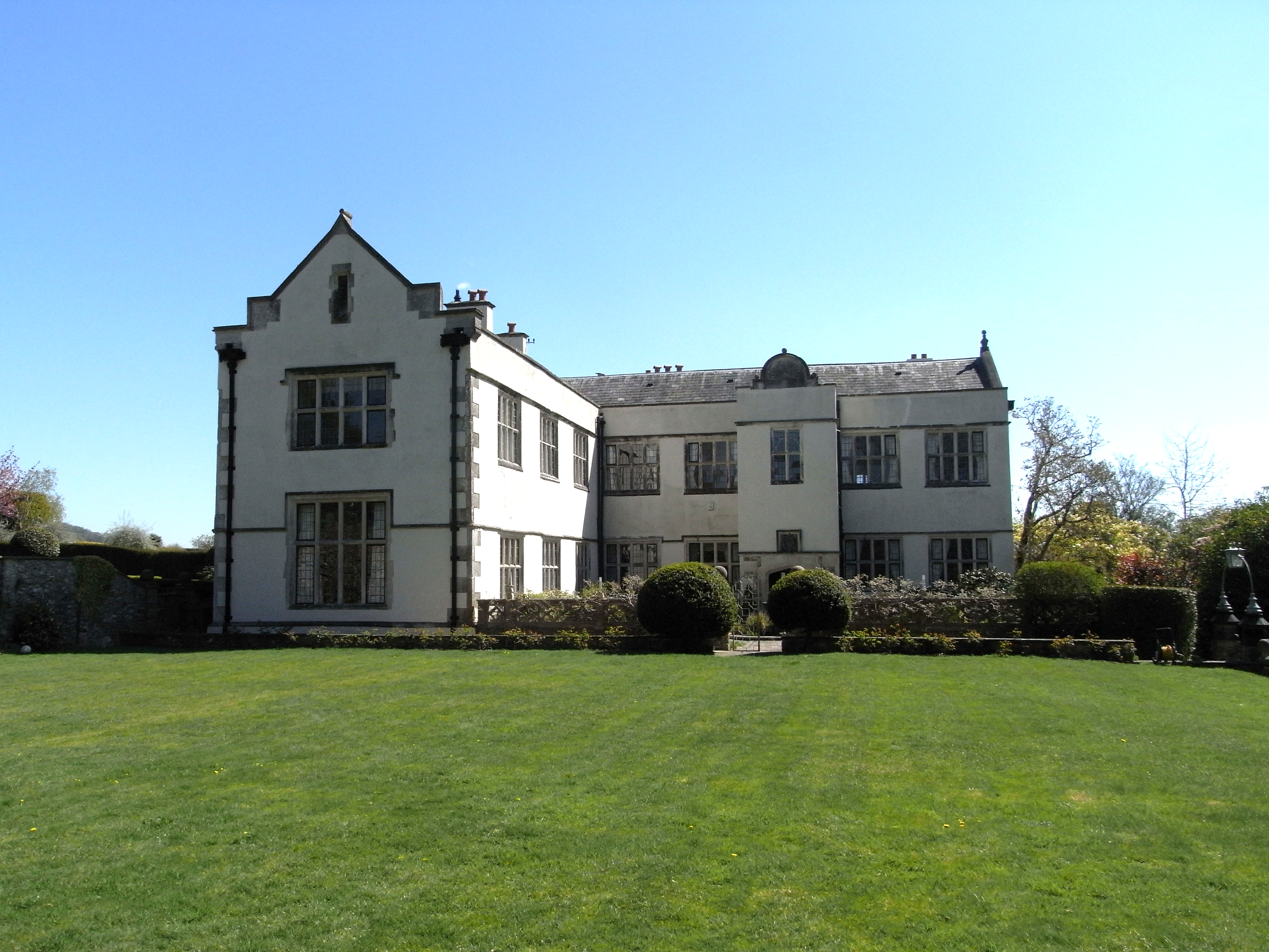 Netherton Hall, Farway, Devon, west front, viewed from west